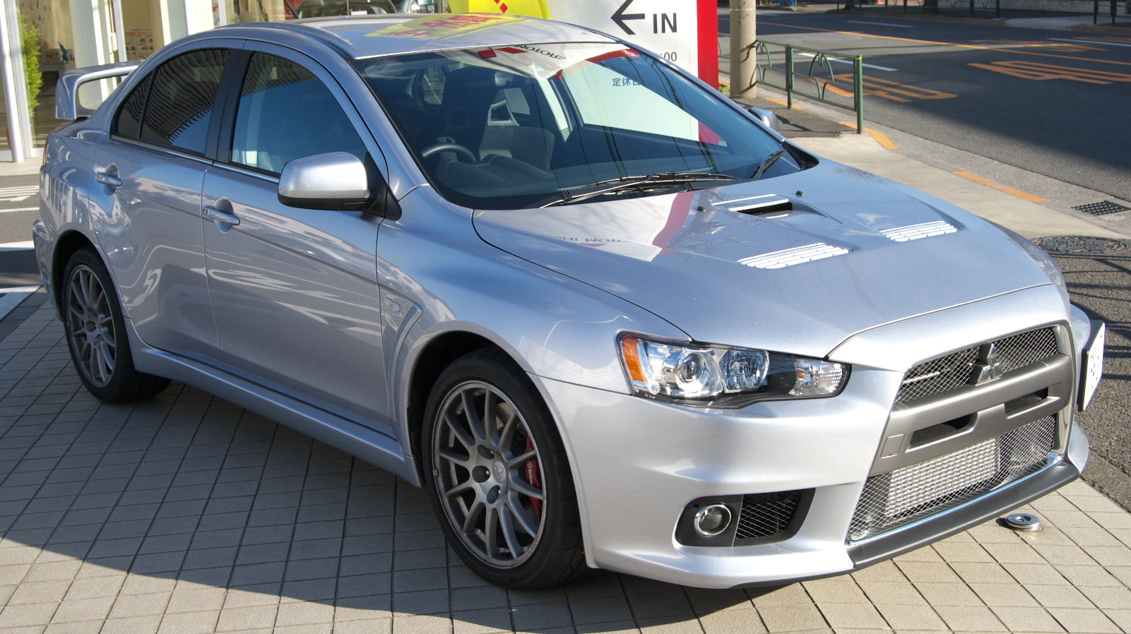 Mitsubishi Lancer Evolution X photographed in Suginami, Tokyo